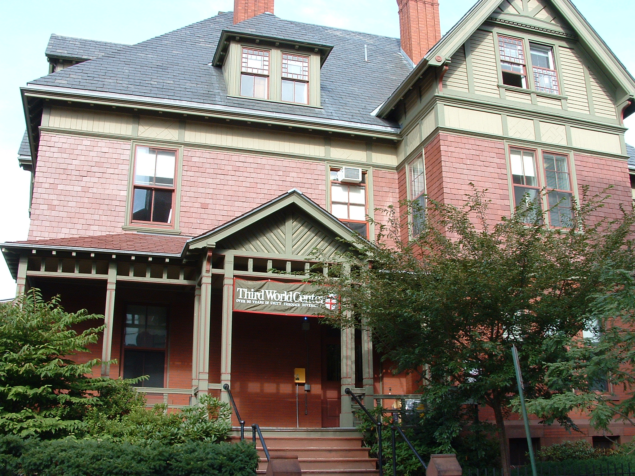 Brown University - Partridge Hall